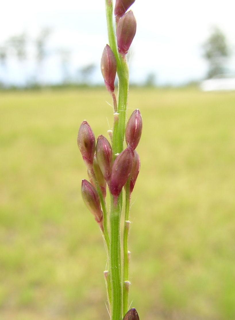 Flowerheads are a narrow primary axis of racemes (4-20 cm long); with the racemes pressed against the main stem. Spikelets are 2.5-3.8 mm long, oblong, unawned and 2-flowered; with a hairy fertile floret which is shorter than the upper glume and lower lemma by up to 1 mm.